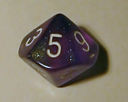 10-sided die.